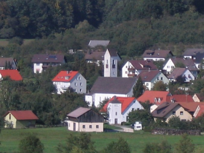 Wannbach (Upper Franconia)